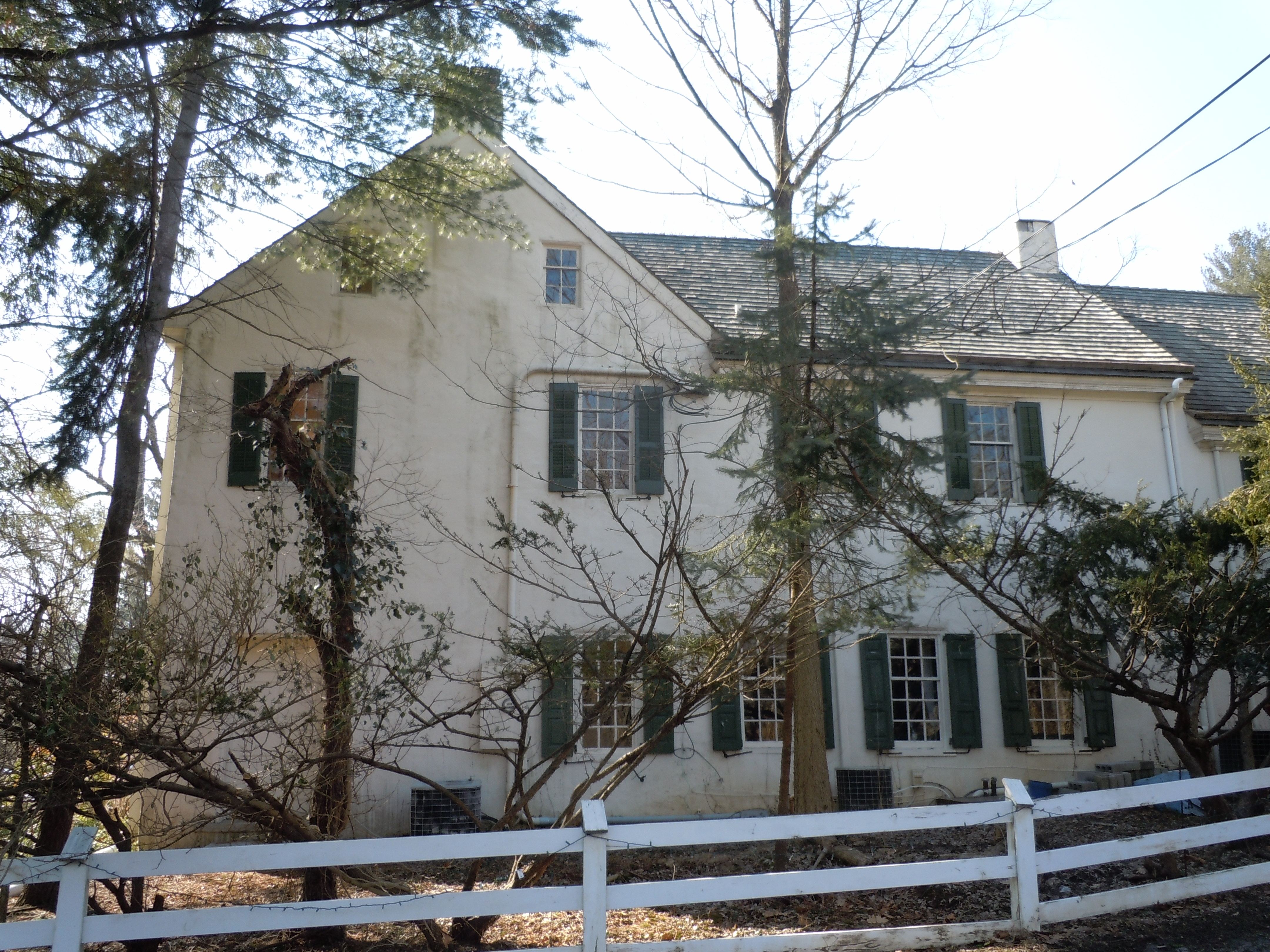 David Havard House on the NRHP since October 26, 1972. Located south of Valley Forge, off Interstate 76 in Tredyffrin Township, Chester County, Pennsylvania. "HQ" of Gen. Charles Lee at Valley Forge encampment.